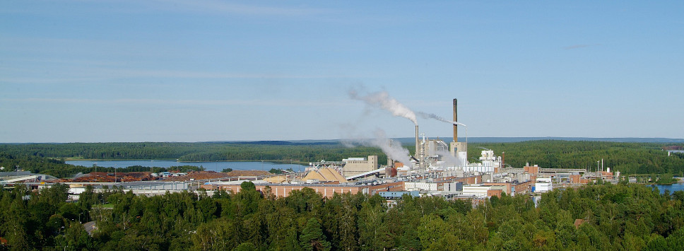 Iggesund Paperboard's Mill in Iggesund, Sweden